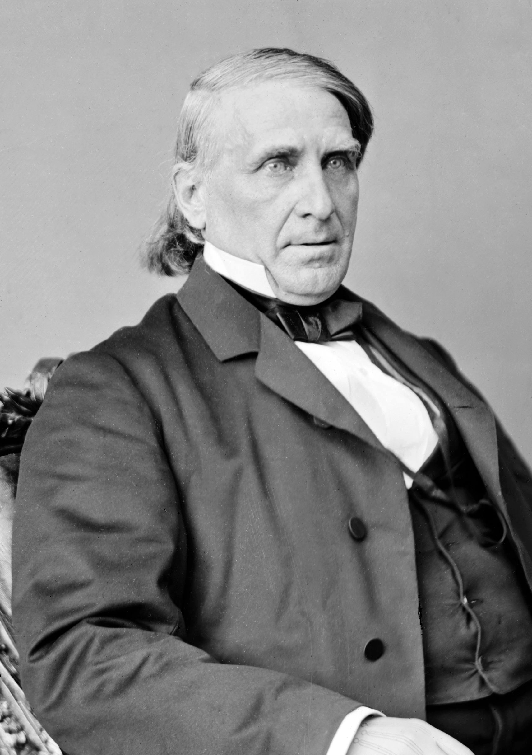 Elihu B. Washburne. Library of Congress description: "E. B. Washburne"